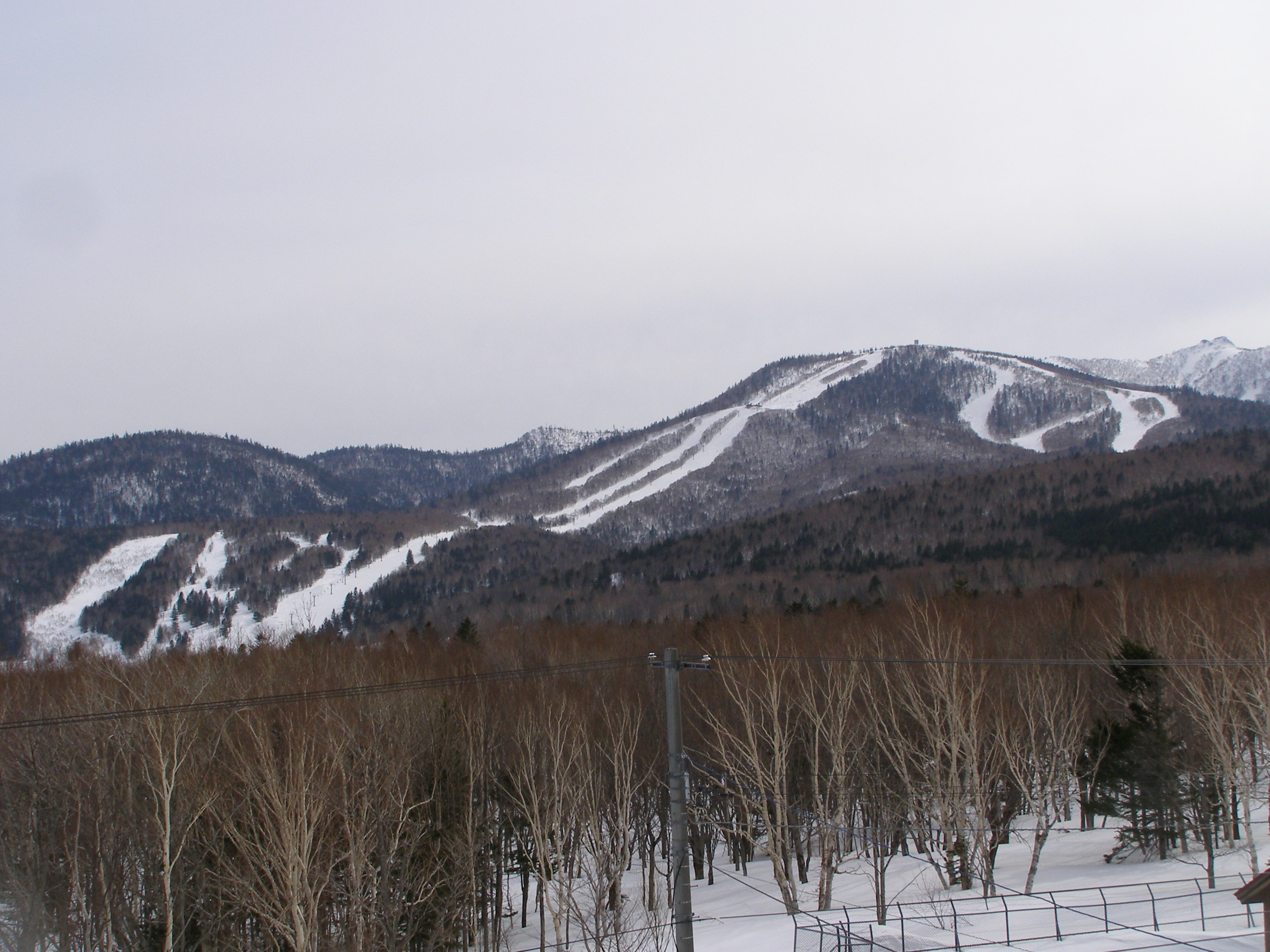 Kita-Taisetu Ski aria is a ski resort in Engaru, Hokkaido, Japan.